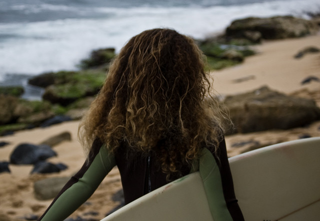 Female surfer in Maui